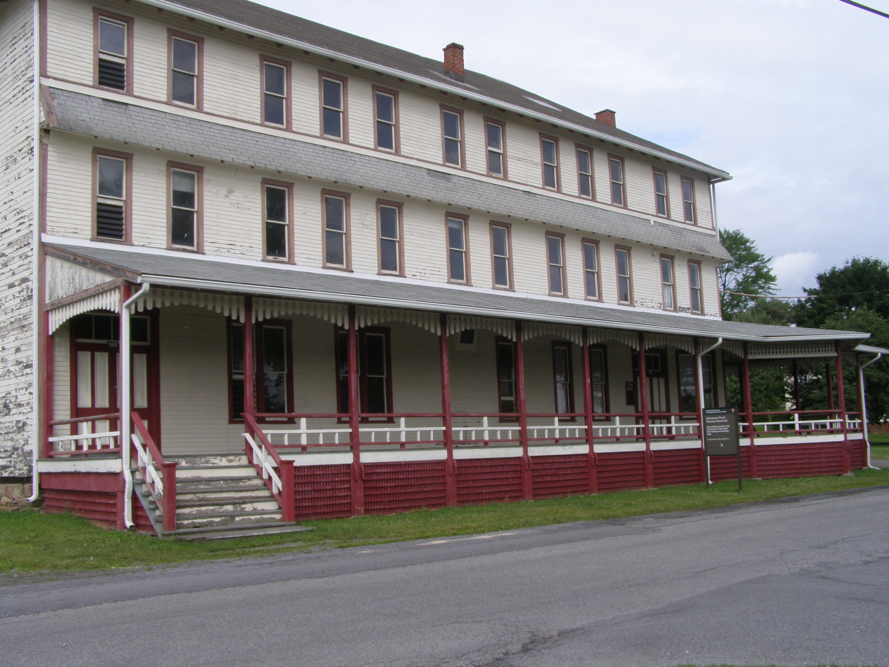 South Fork Fishing and Hunting Club in the South Fork Fishing and Hunting Club Historic District at Johnstown Flood National Memorial, Penn.